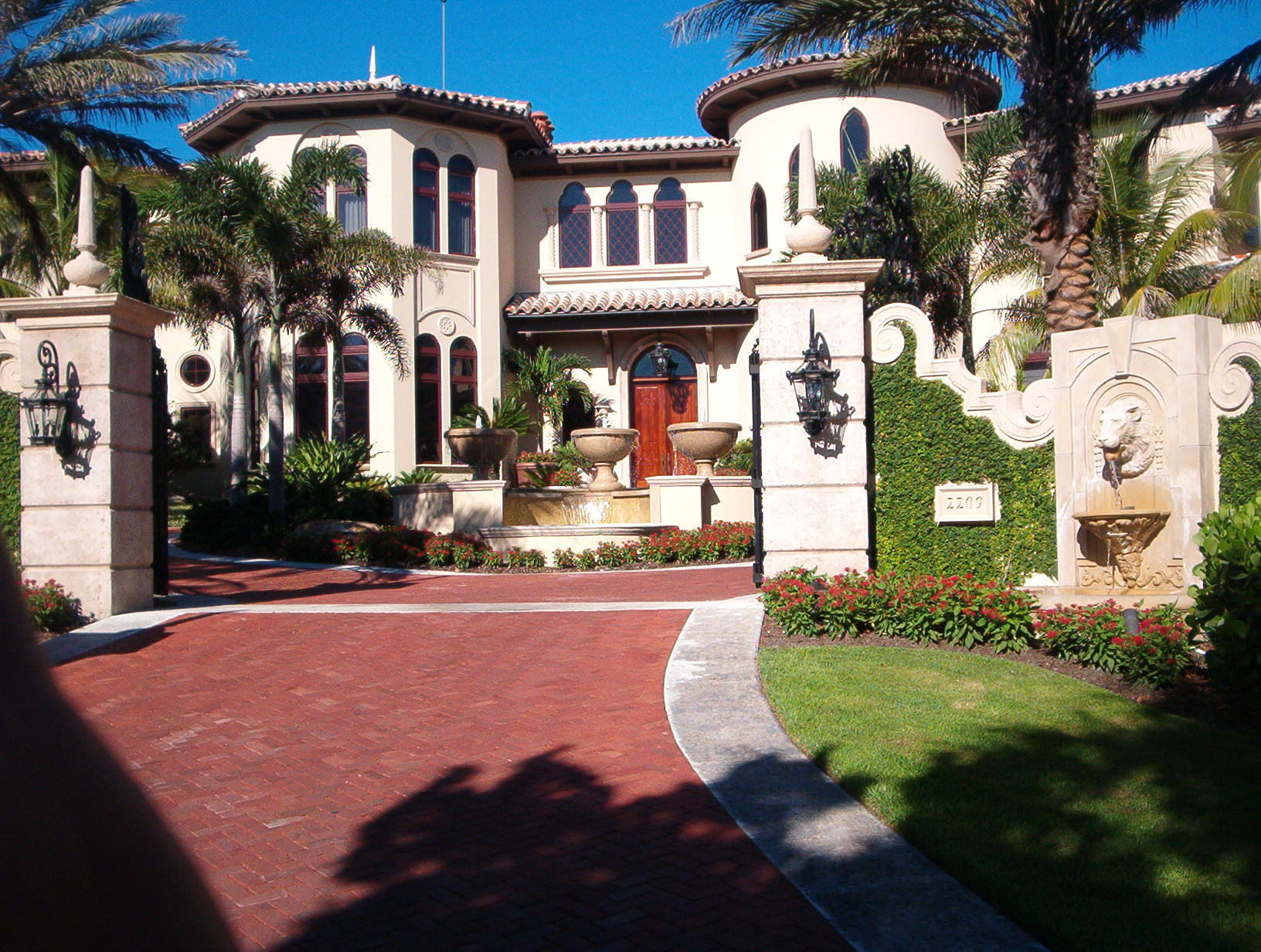 View of a house on Casey Key near Nokomis, Florida, United States — 2209 Casey Key Rd.